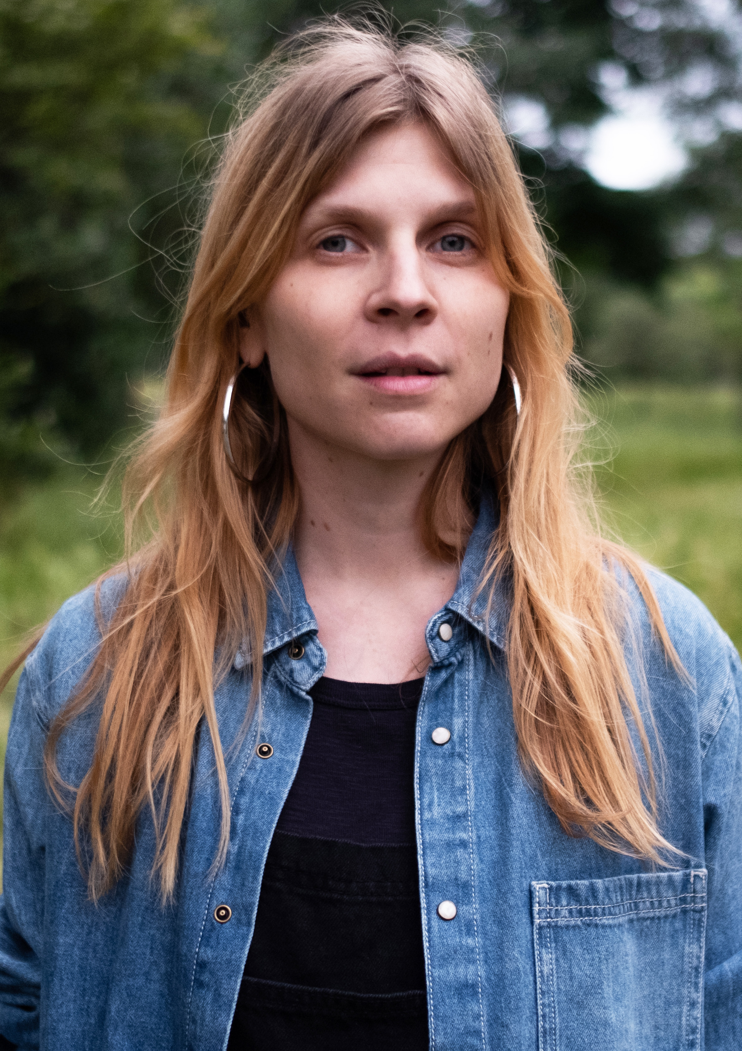 Clémence Poésy , june 2019, in London